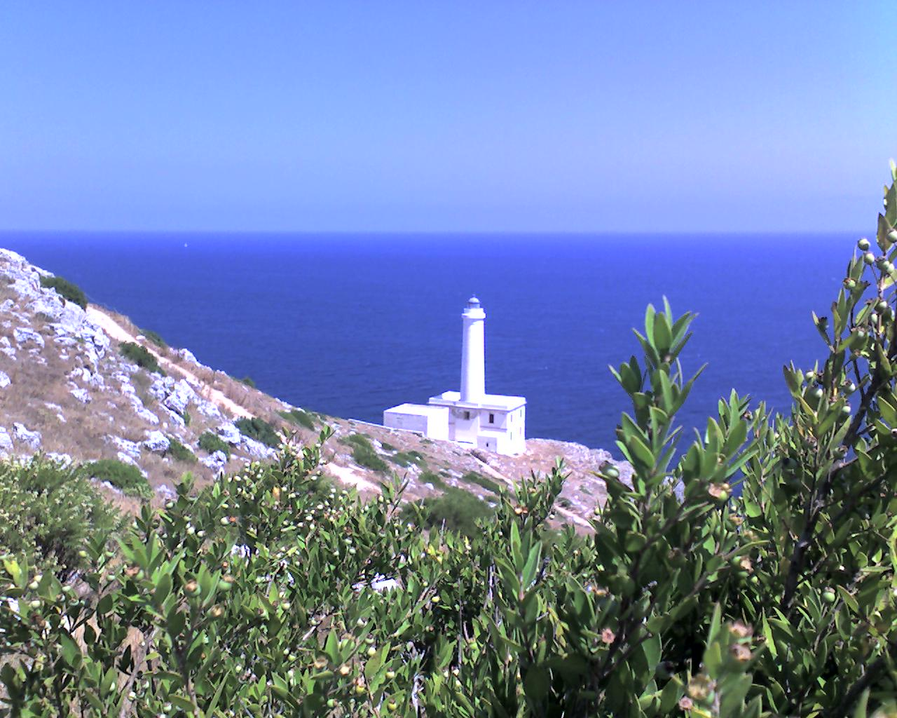 Light house in Punta Palascia, Otranto, Italy.